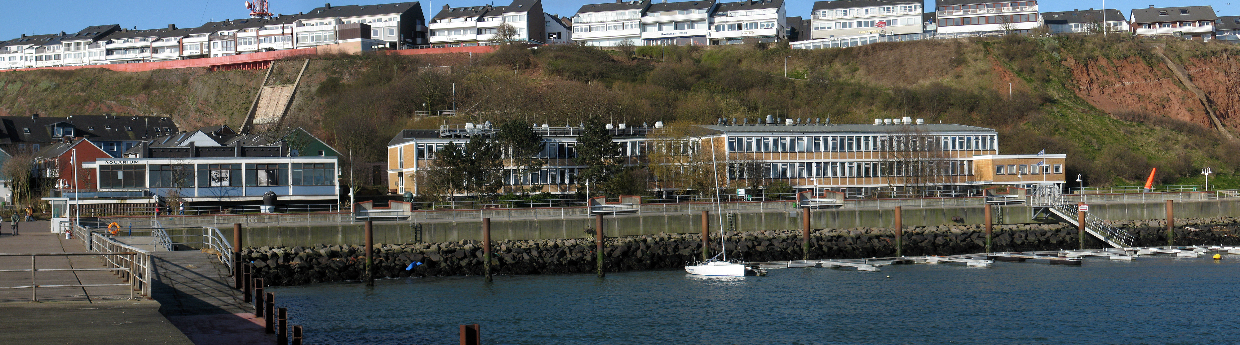 The Biologische Anstalt Helgoland part of the Alfred Wegener Institute for Polar and Marine Research